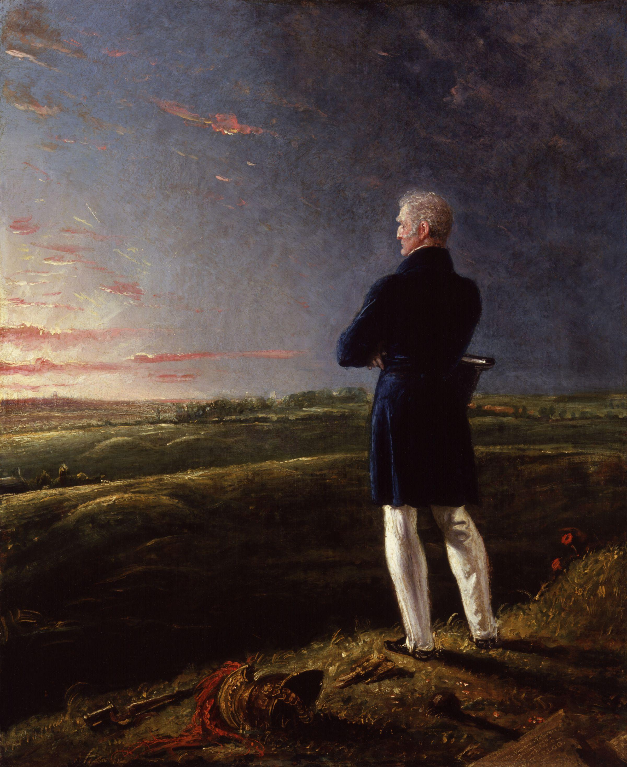 Arthur Wellesley, 1st Duke of Wellington, overlooking the rolling field at Waterloo at sunrise, a companion piece to Napoleon Bonaparte on St Helena gazing across the sea at sunset. See website for additional information.